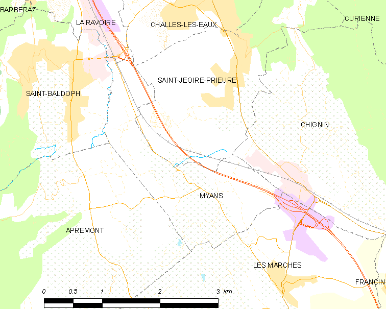 Map of French municipality